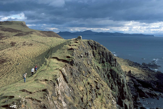 Southwest coast of Isle of Muck Muck may be a small island but to walk its entire coastline gives a glorious range of views of the island, the neighbouring islands and mainland. Beinn Airean the highest point of Muck is visible from this viewpoint as well as the mainland around Ardnamurchan Point.